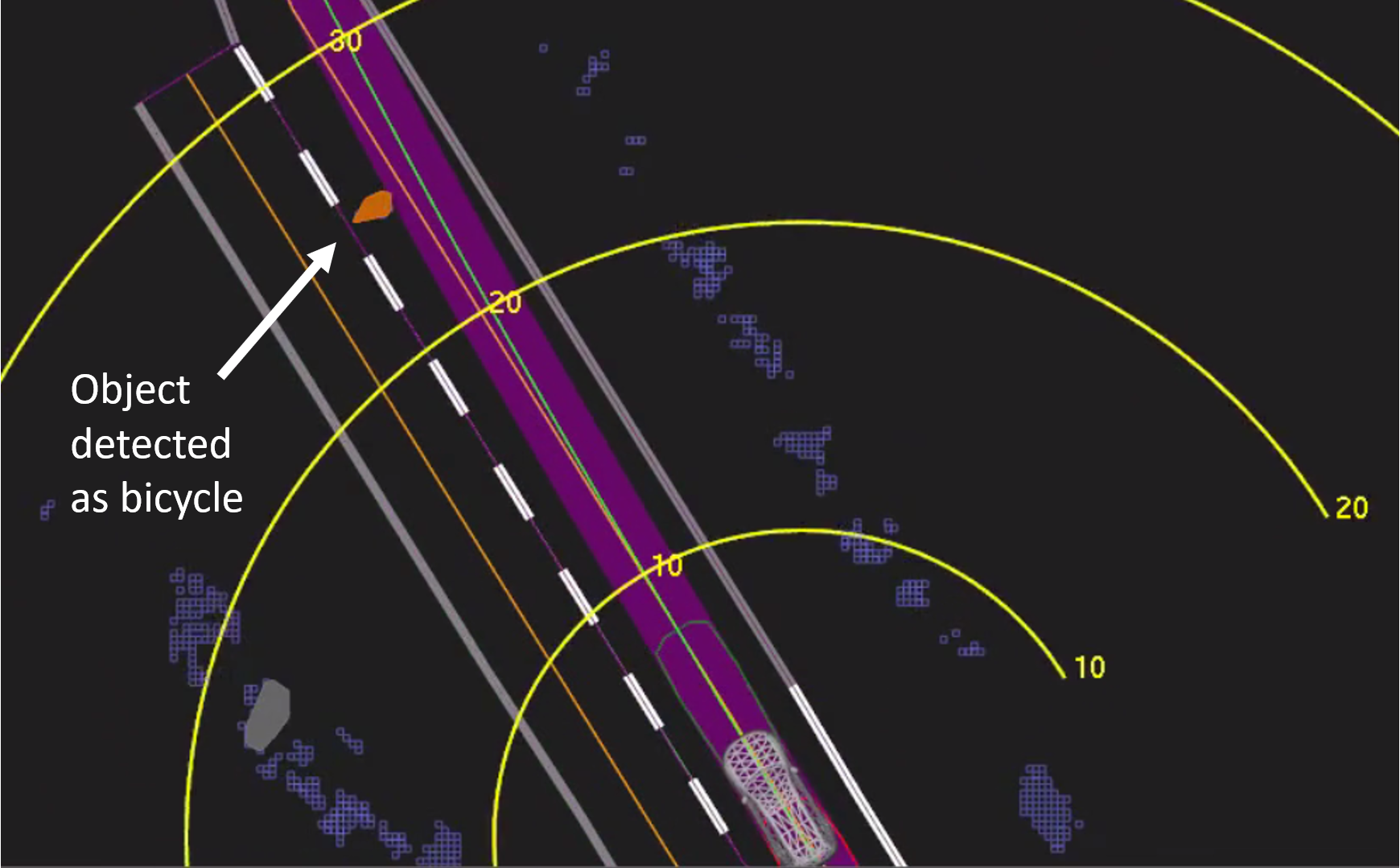 WASHINGTON (May 24, 2018) -- This Uber self-driving system data playback from the fatal, March 18, 2018, crash of an Uber Technologies, Inc., test vehicle in Tempe, Arizona, shows when, at 1.3 seconds before impact, the system determined emergency braking was needed to mitigate a collision. The yellow bands depict meters ahead of the vehicle, the orange lines show the center of mapped travel lanes, the purple area shows the path of the vehicle and the green line depicts the center of that path.